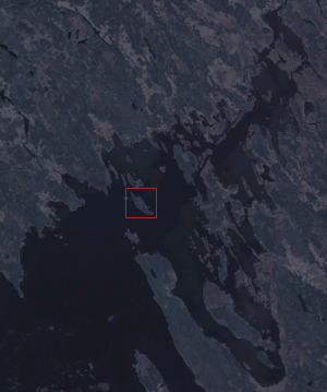 Gulf of Finland. Location of Bolshoy Tyuters in Vyborg Bay